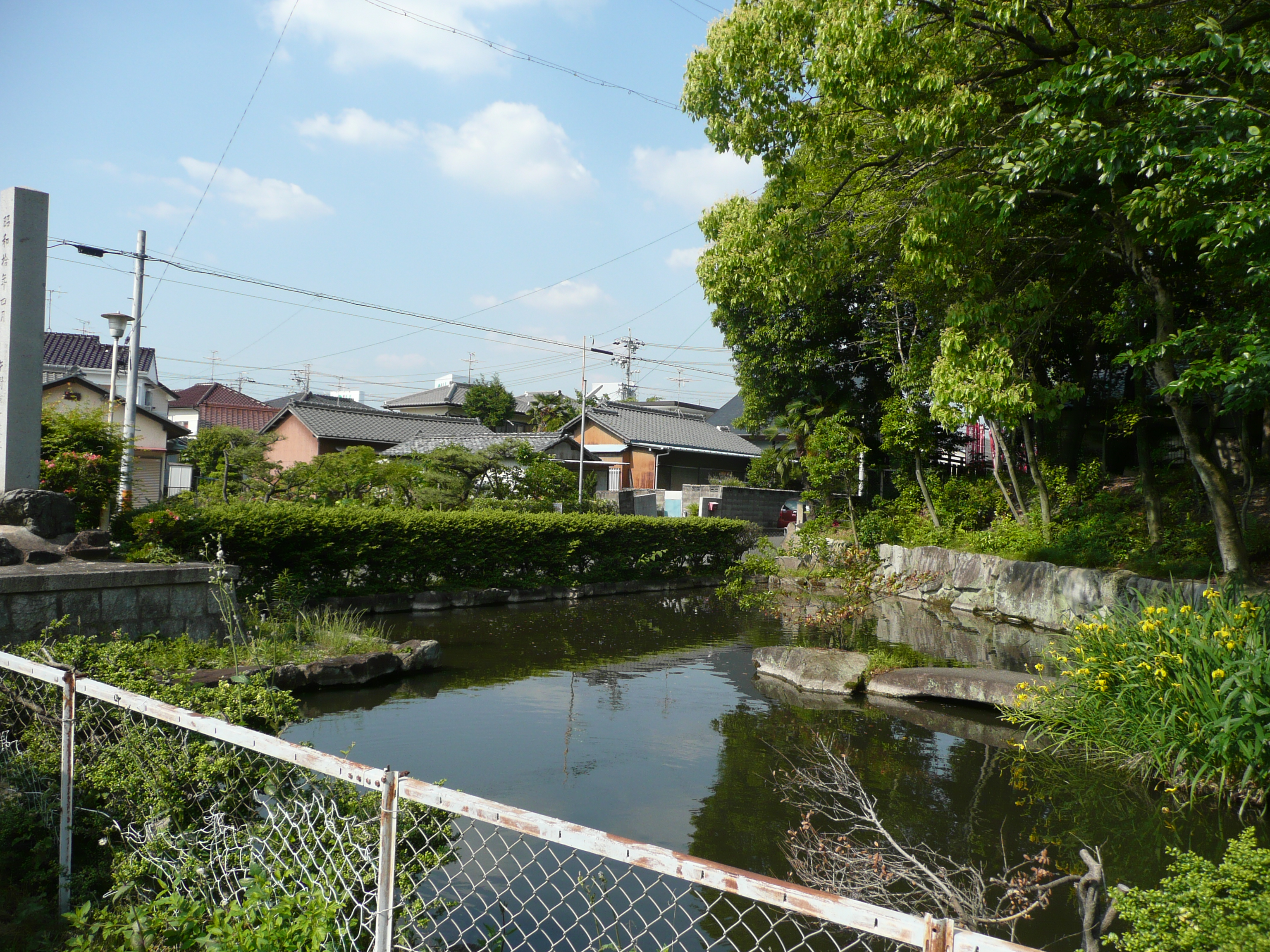 水堀の一部